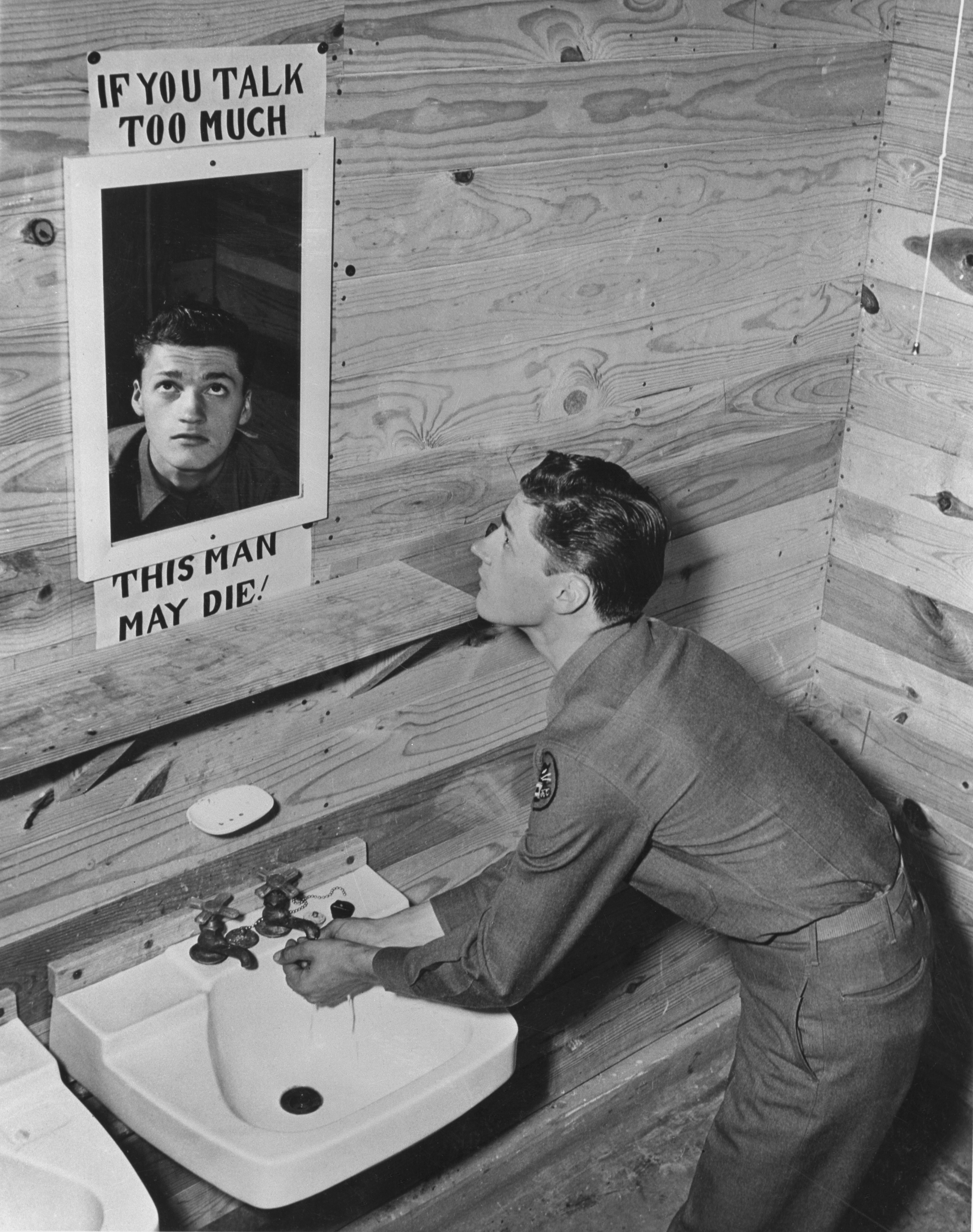 U.S. soldier looks into washroom mirror with sign around it reading "IF YOU TALK TOO MUCH THIS MAN MAY DIE!". Encouragement of not spreading information which might be sensitive in the War effort during World War II. Camp Hood, Texas, 1943. Original caption: "Every man, a poster at Camp Hood. Taking a cue from the Office of War Information (OWI) poster "If you talk too much, this man may die", Private Ivan A. Smith, editor of the Camp Hood Panther, Camp Hood,Texas, originated this novel method of reminding his fellow soldiers to practice discretion. Looking into the mirror at the camp"